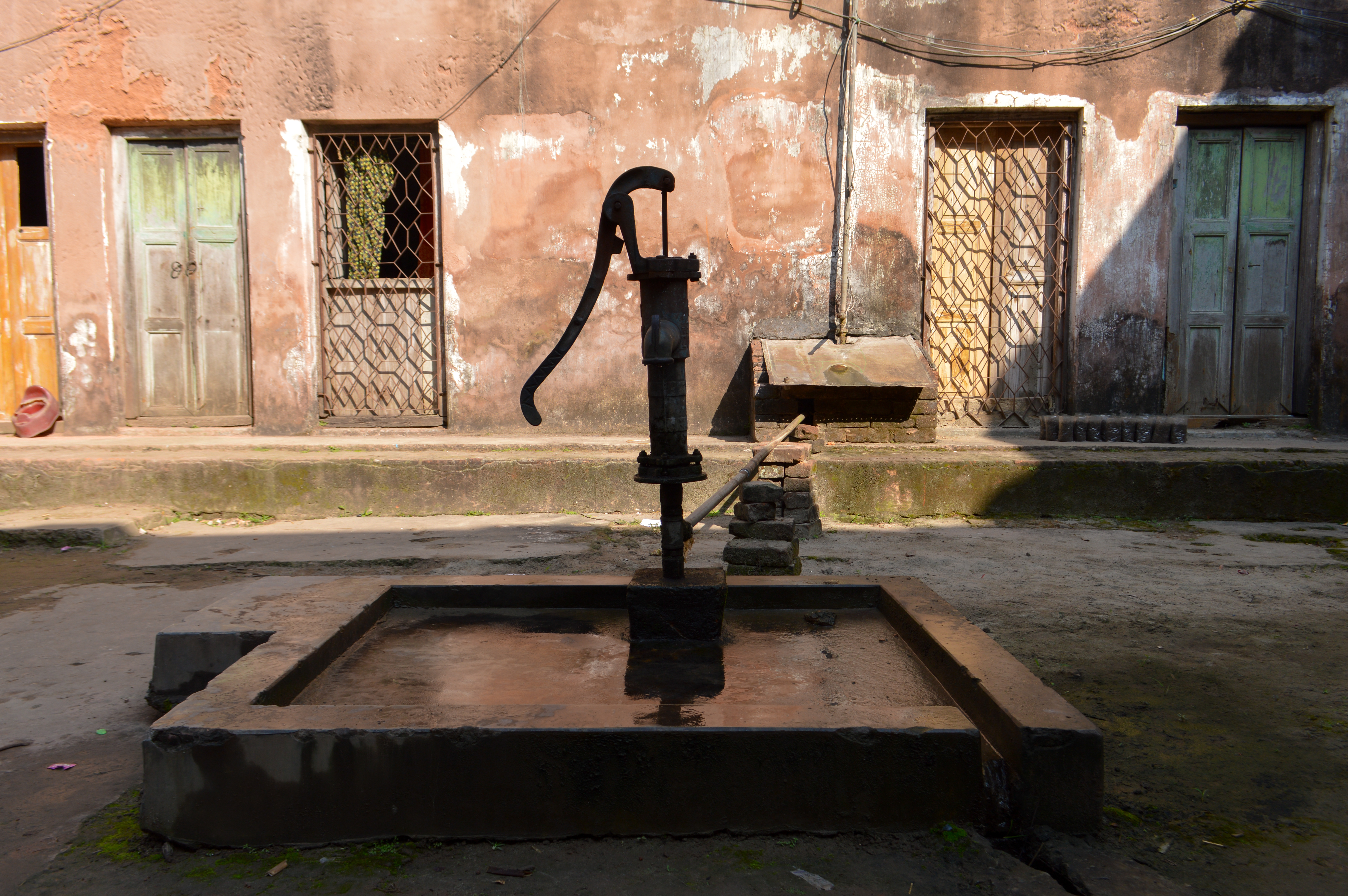 Tube well, Panam City, Dhaka.